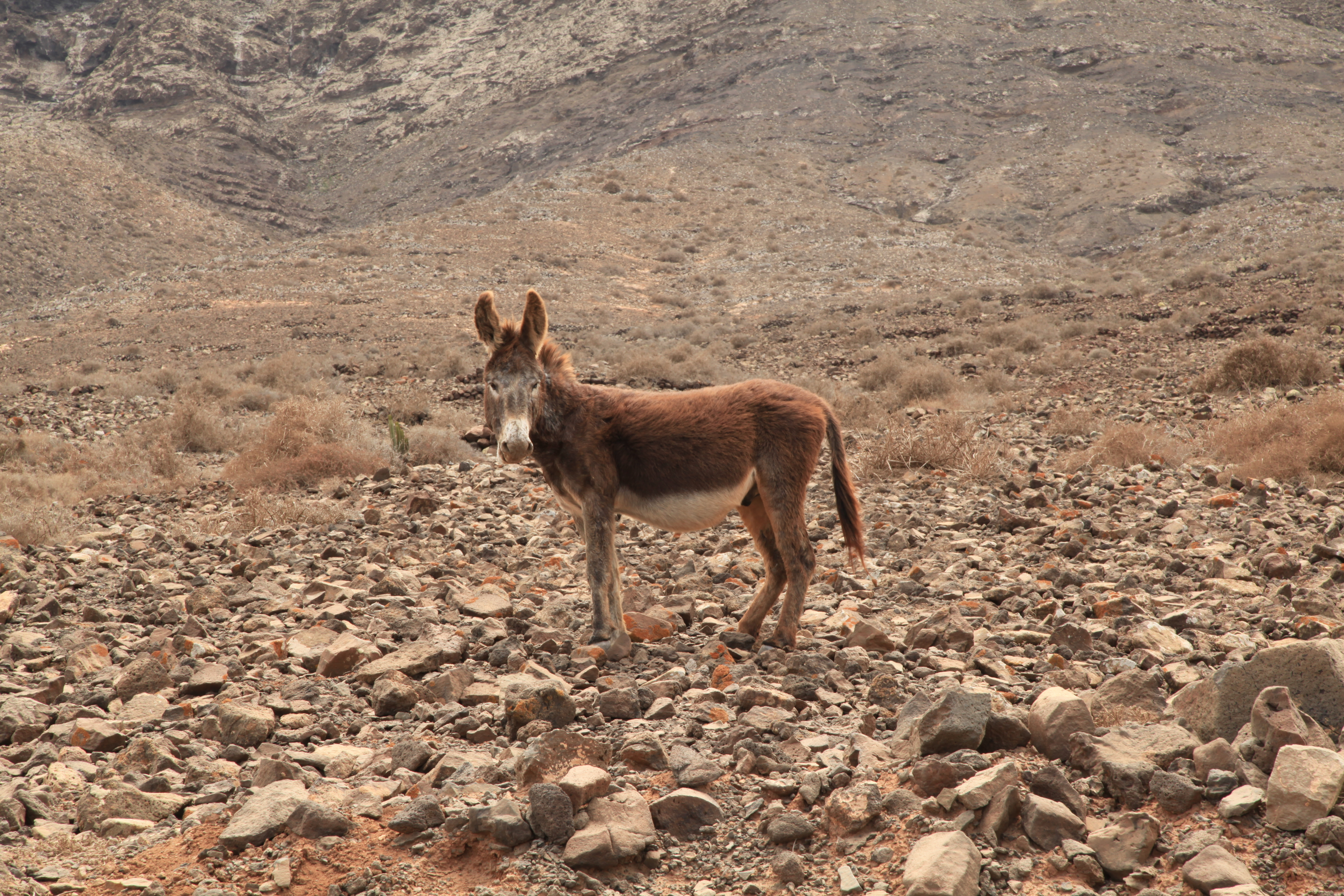 Road to Cofete in Pájara, Fuerteventura, Canary Islands